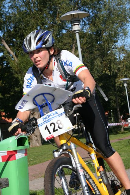 This work is free and may be used by anyone for any purpose. If you wish to use this content, you do not need to request permission as long as you follow any licensing requirements mentioned on this page.